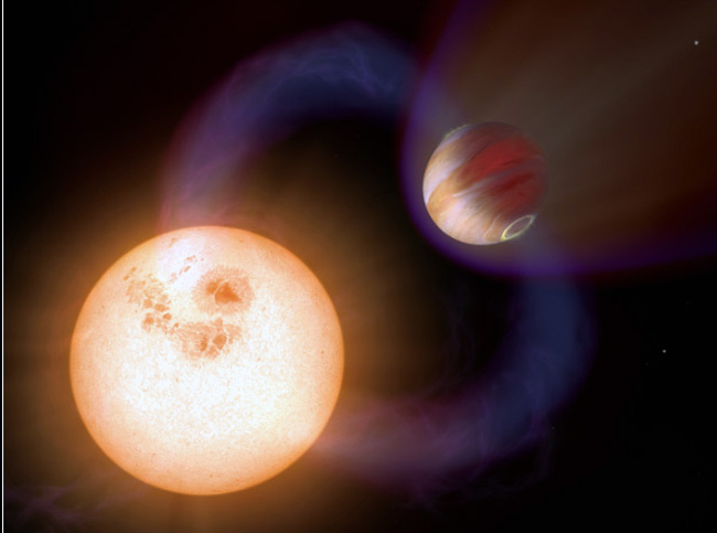 Artist's impression of an ultra-short period planet (USPP).